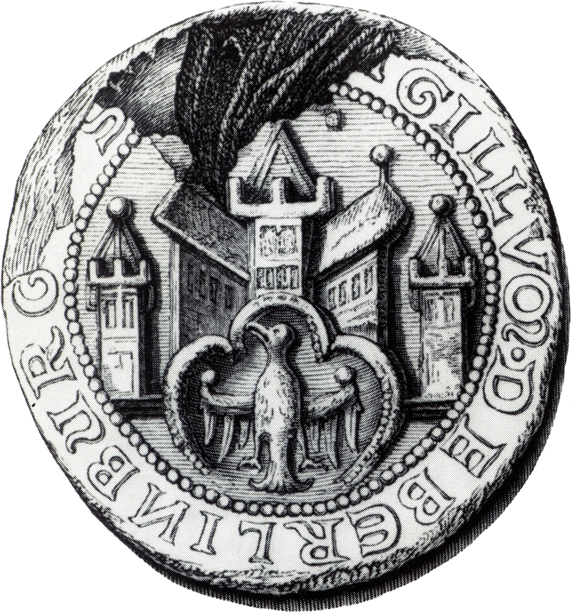 Oldest seal of Berlin from 1253, ⌀ 64 mm.